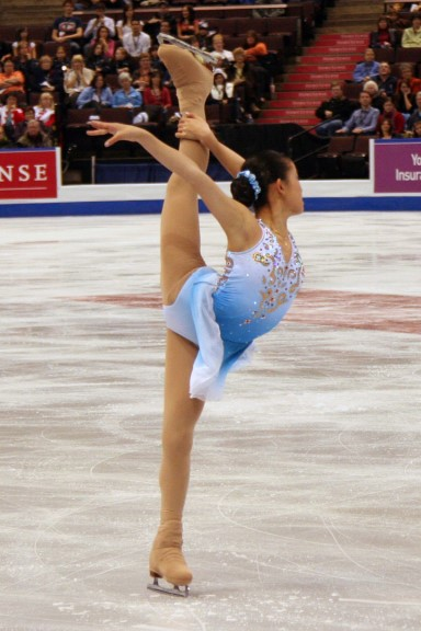 Caroline Zhang performs a spiral during her short program at the 2008 Skate Canada International. Zhang placed 5th at this competition.